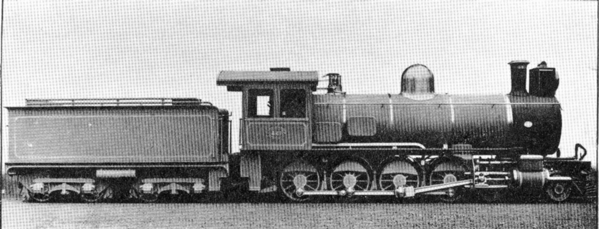 Ex Central South African Railways Class 8-L2 441 (4-8-0) South African Railways Class 8B 1132 (4-8-0) Builder's Number: Neilson, Reid 6351